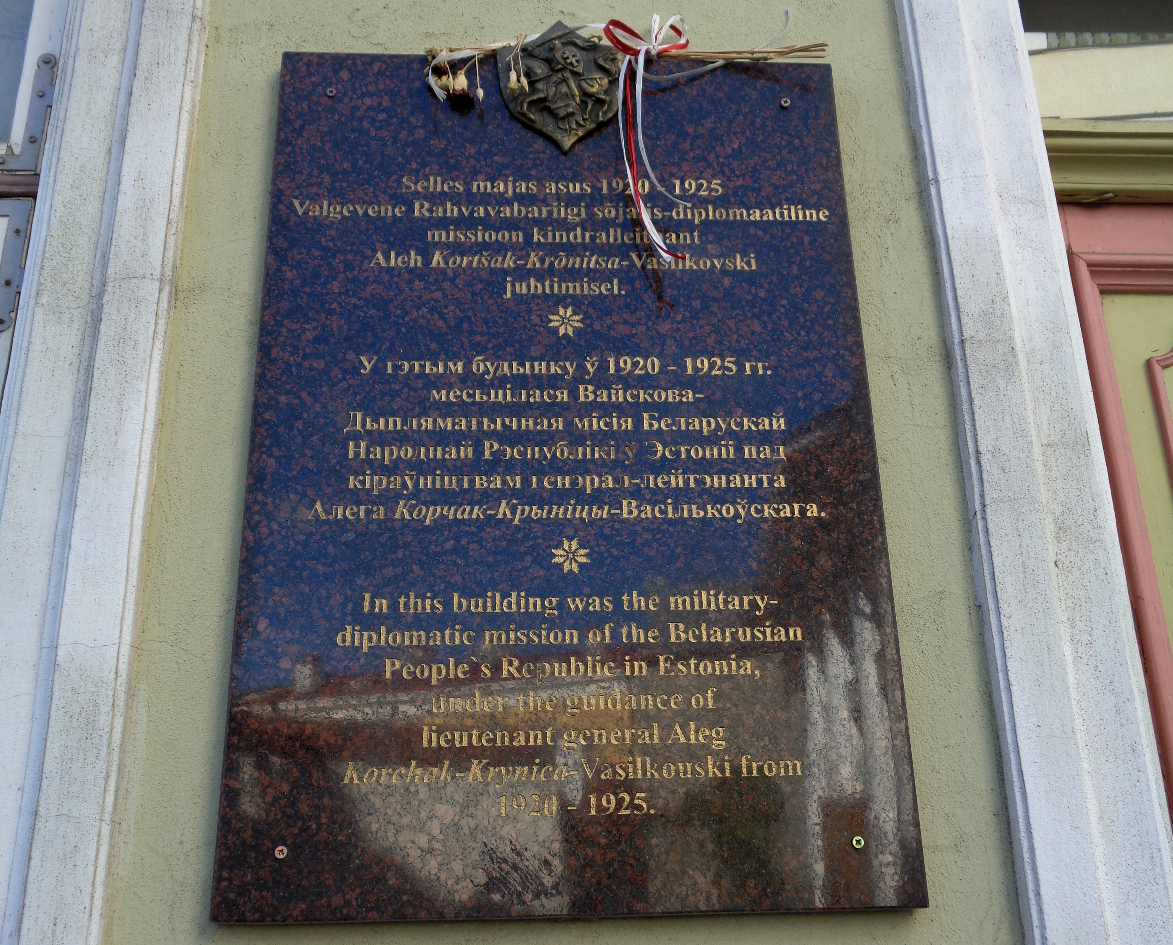 Memorial plaque to the Office of the Military-Diplomatic Mission of the Belarusian People's Republic in Tallinn, Estonia